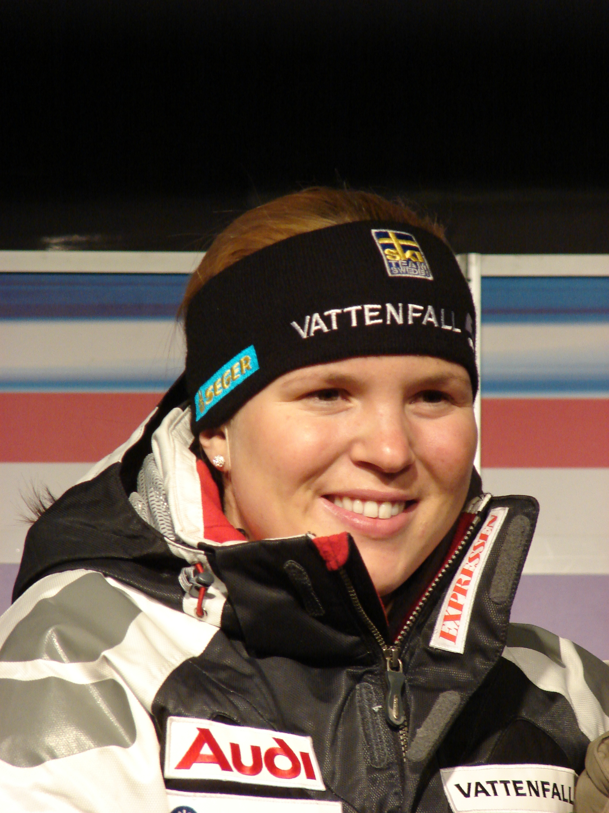 Swedish alpine skier Anja Pärson during the public draw for the Giant Slalom in Semmering, Austria on Dec. 28, 2006.